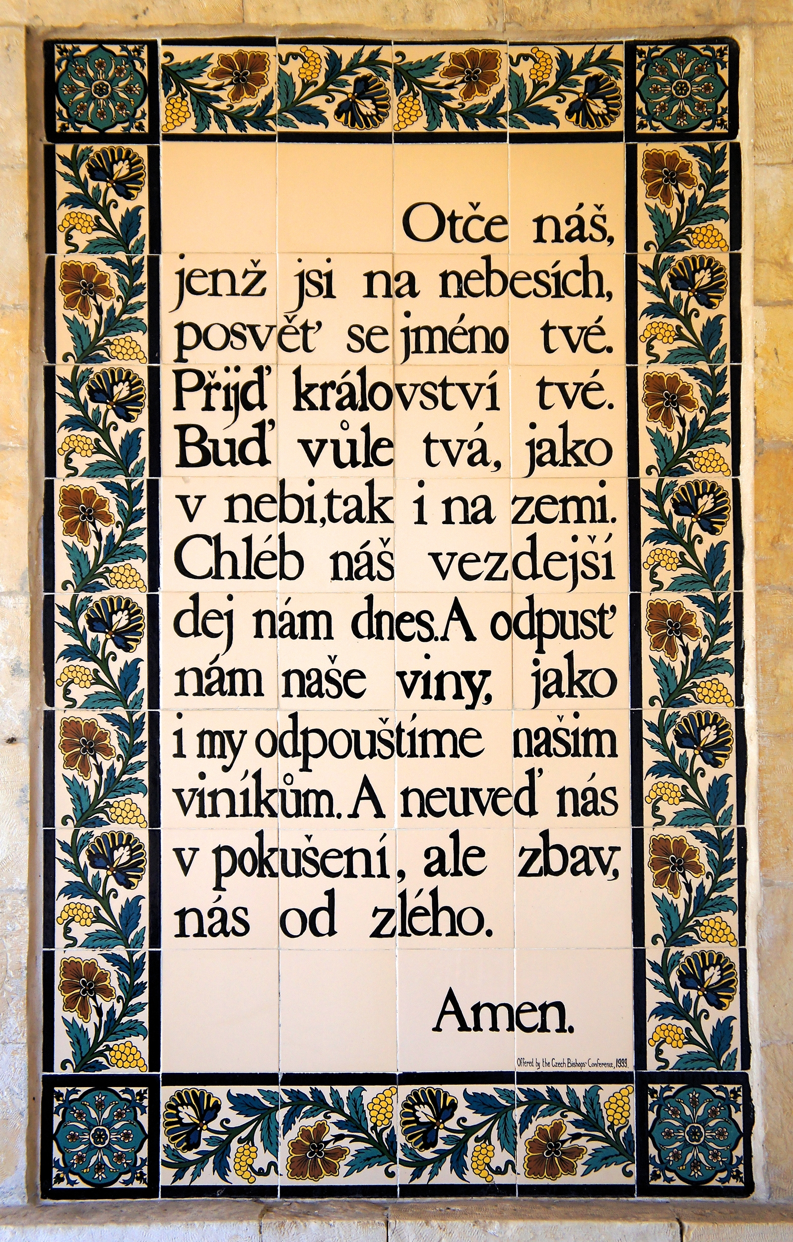 The Lord's Prayer in Czech, Church of the Pater Noster, Jerusalem.